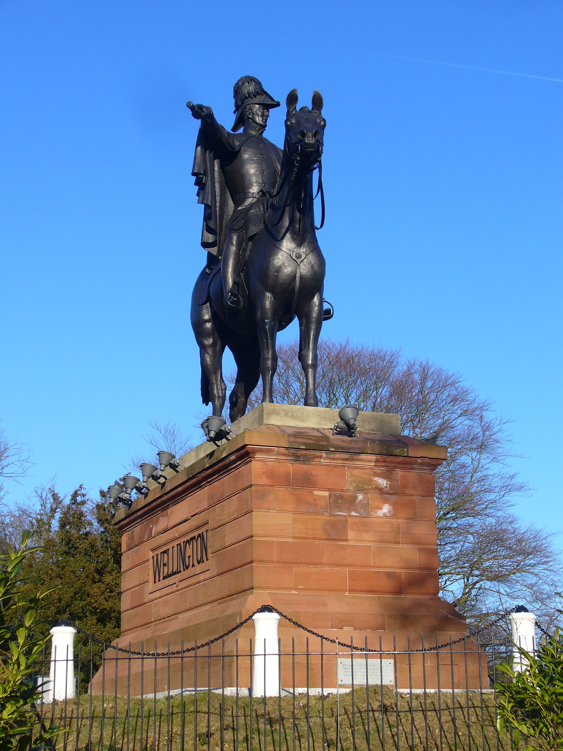 Wellington Monument, Aldershot Massive 40 ton statue of the national hero on Round Hill. It was moved from Hyde Park to here in 1883.